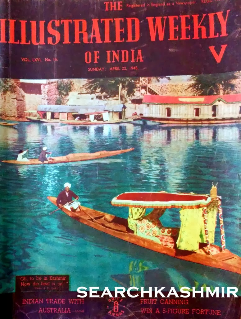 Cover page of The Illustrated Weekly of India, April 22, 1945